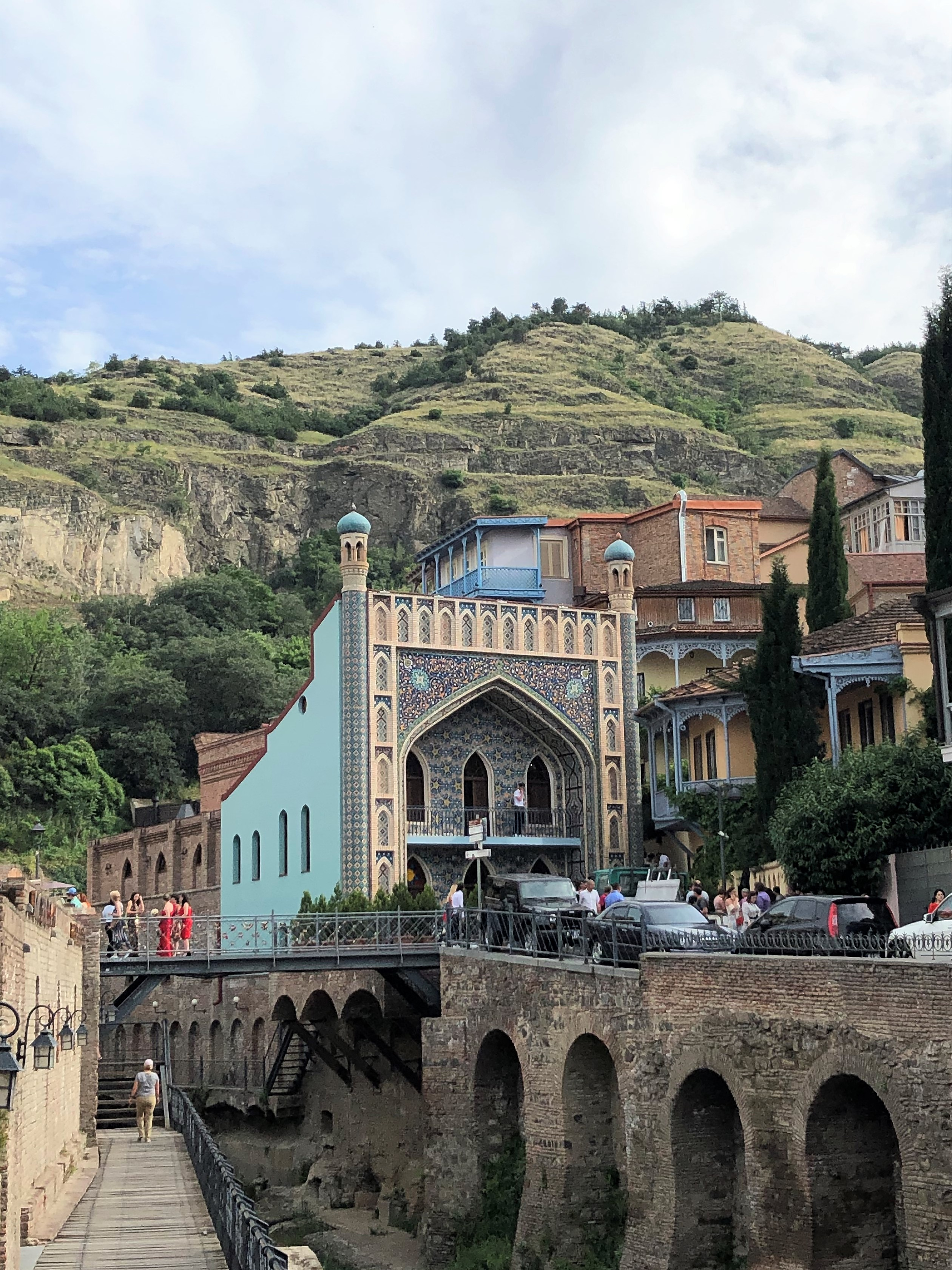 Orbeliani Baths, Tbilisi